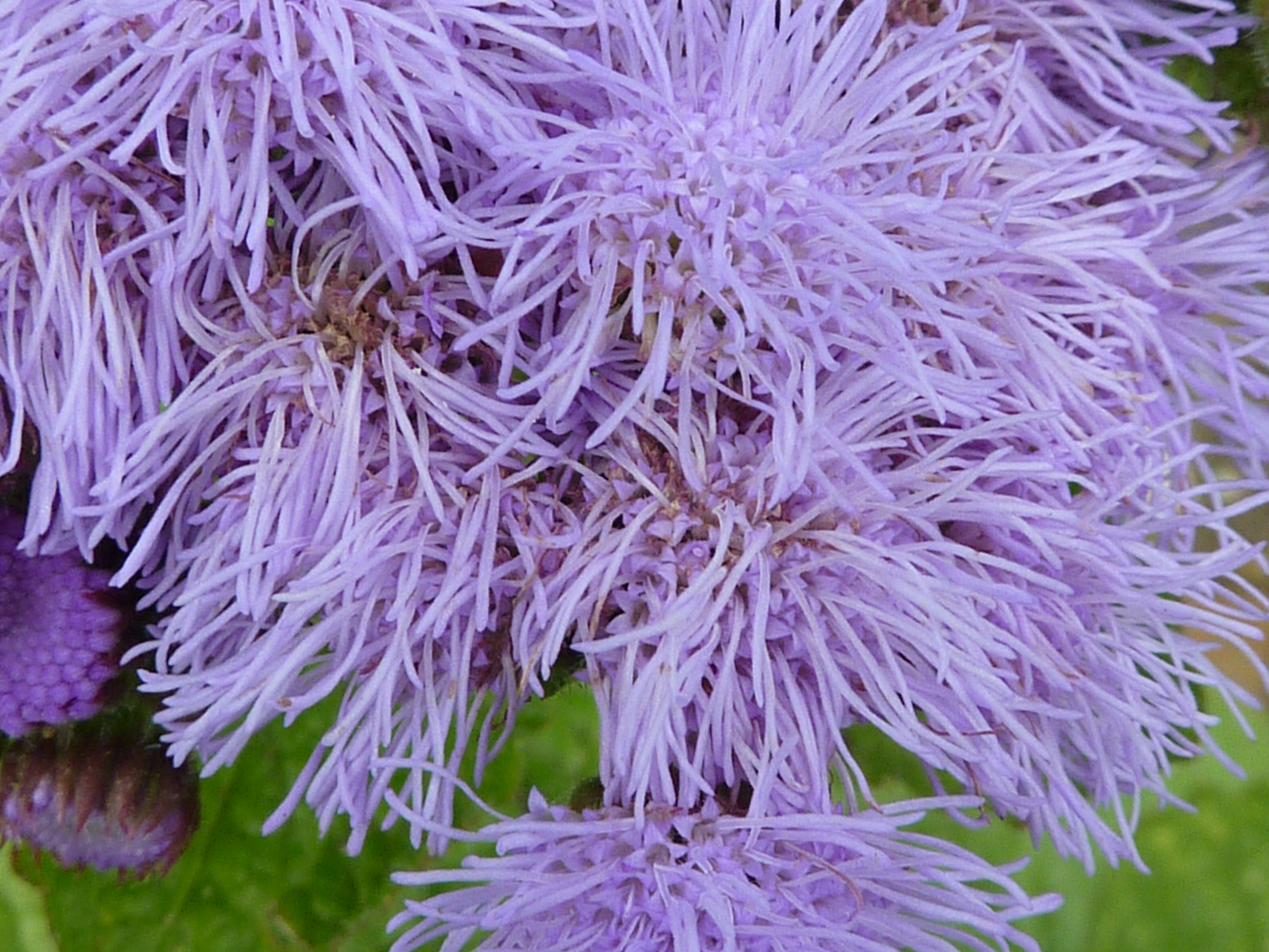 Ageratum houstonianum 'Blue Mink', Cambridge University Botanic Garden